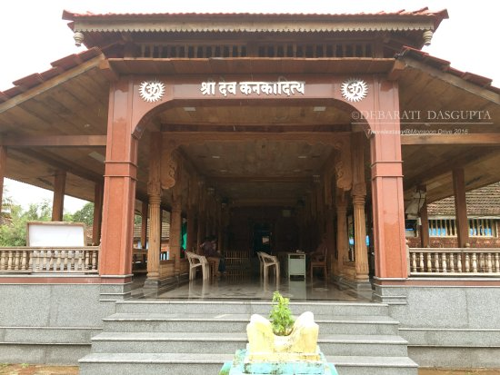 this is an image of illuminated Mysore palace at day